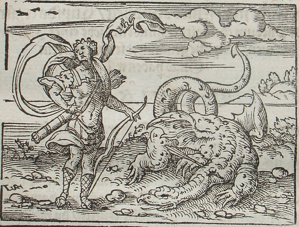 Apollo kills Python. Engraving by Virgil Solis for Ovid's Metamorphoses Book I, 435-451. Fol. 9r, image 12.